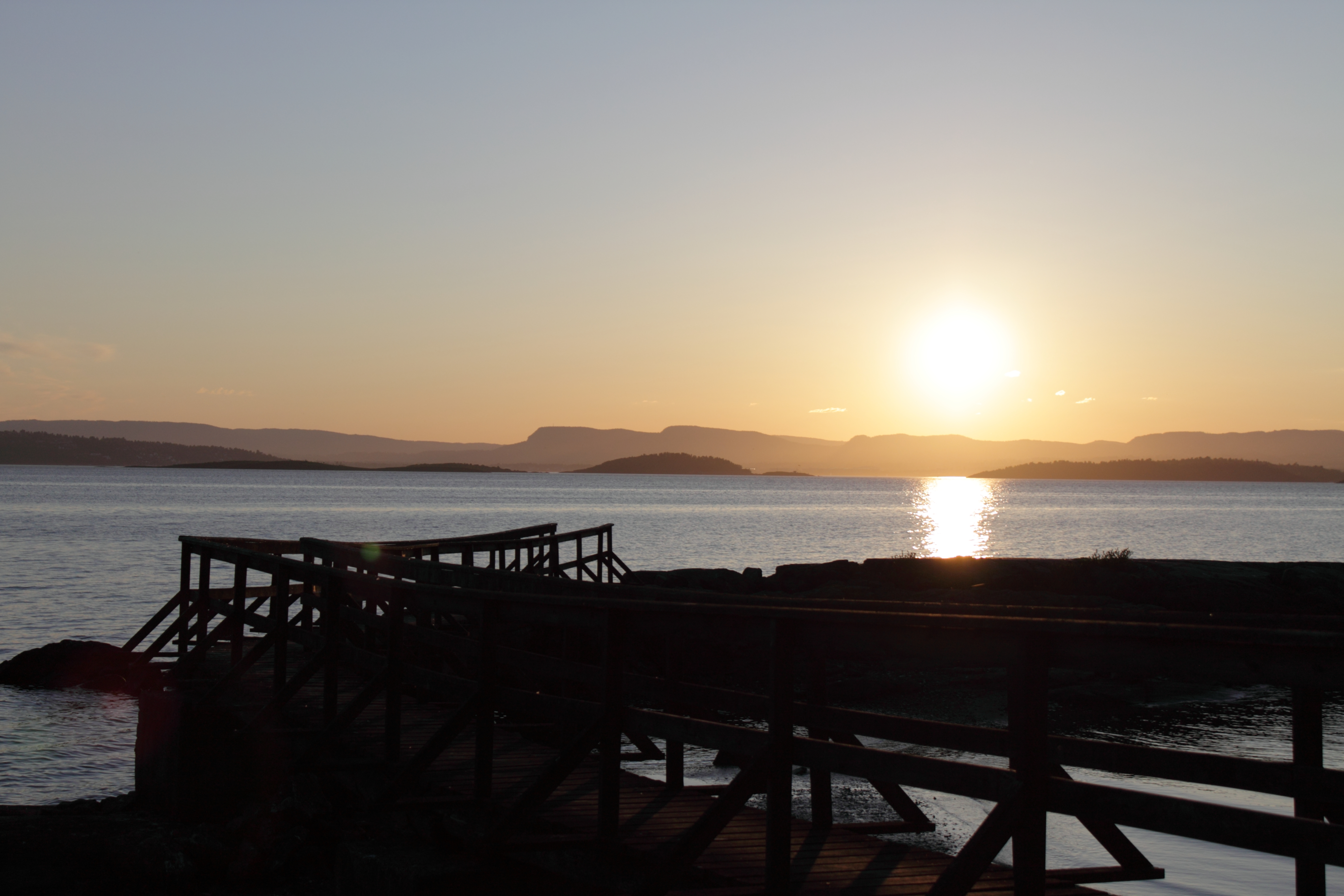 Kolsås from 16.5 km away to the south east.